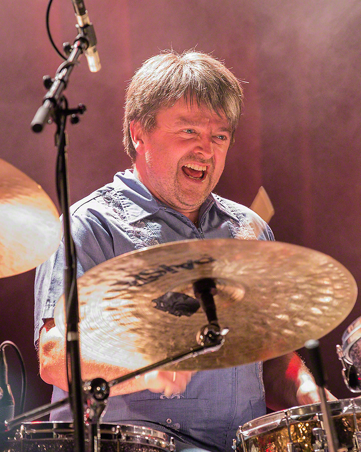 Nikolai Hamre performs at a concert with Pogo Pops at Parkteatret in Oslo. Lineup: Frank Hammersland (bass and vocal) Viggo Krüger (guitar) Nikolai Hamre (drums)